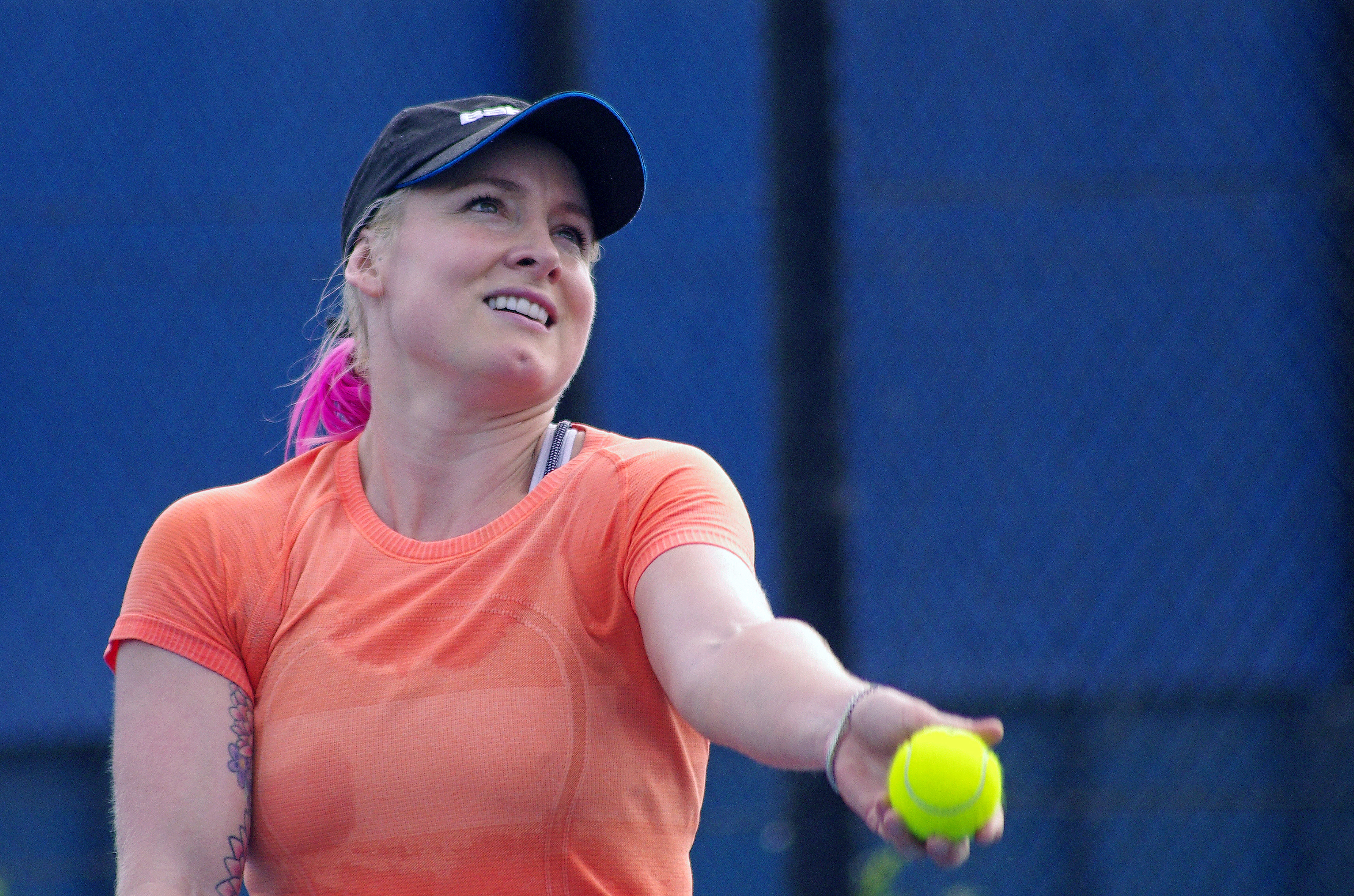 BETHANIE MATTEK-SANDS